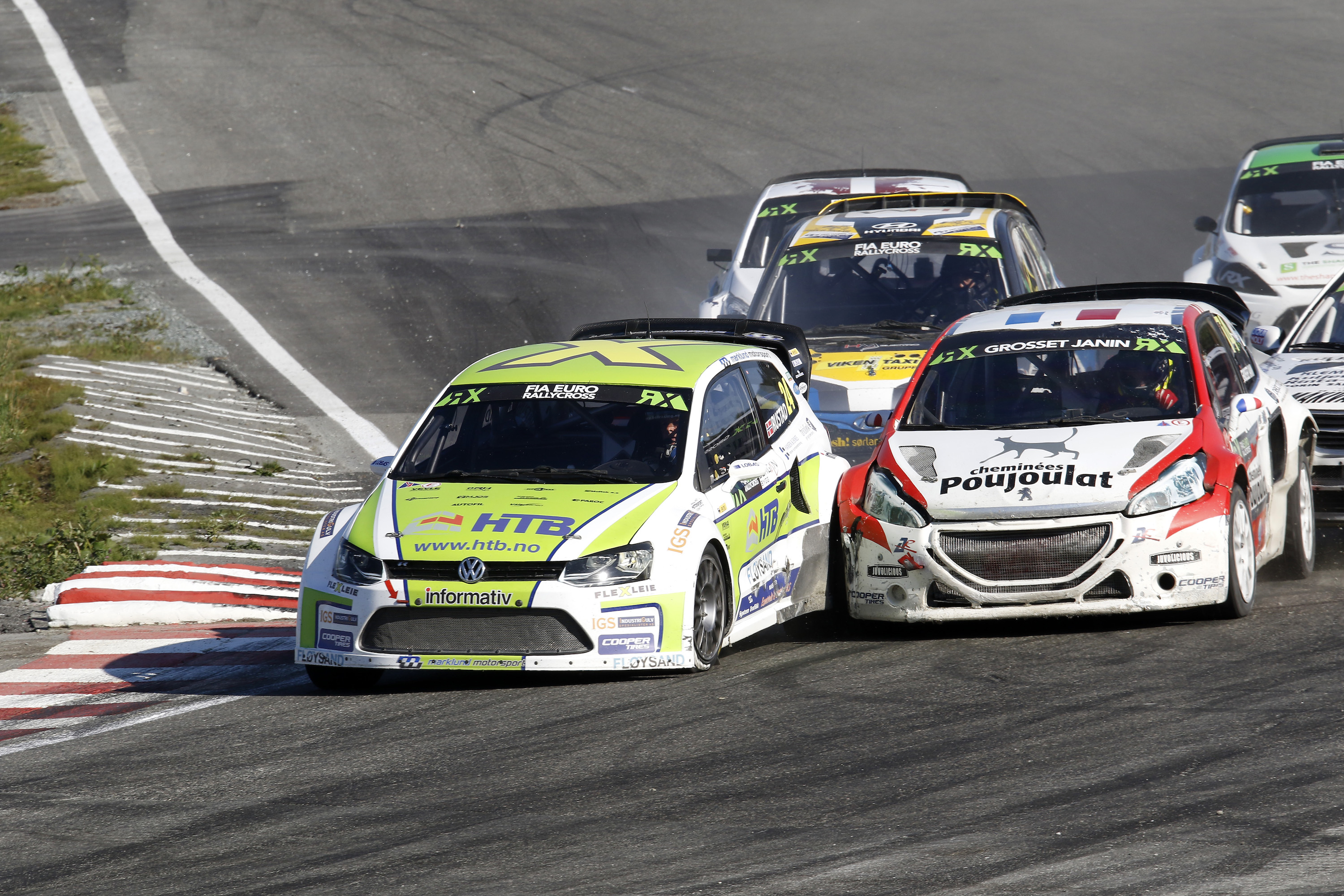 Tommy Rustad (VW Polo R) fights with Jérôme Grosset-Janin (Peugeot) at the Round 3 of the 2015 FIA European Rallycross Championship at Lånkebanen, Hell, Norway.